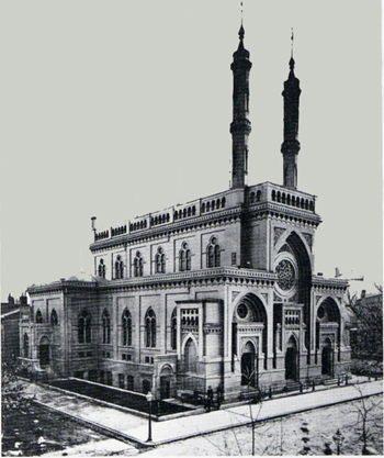 Plum Street Temple (Isaac M. Wise Temple), Cincinnati OH at the beginning of the 20th century